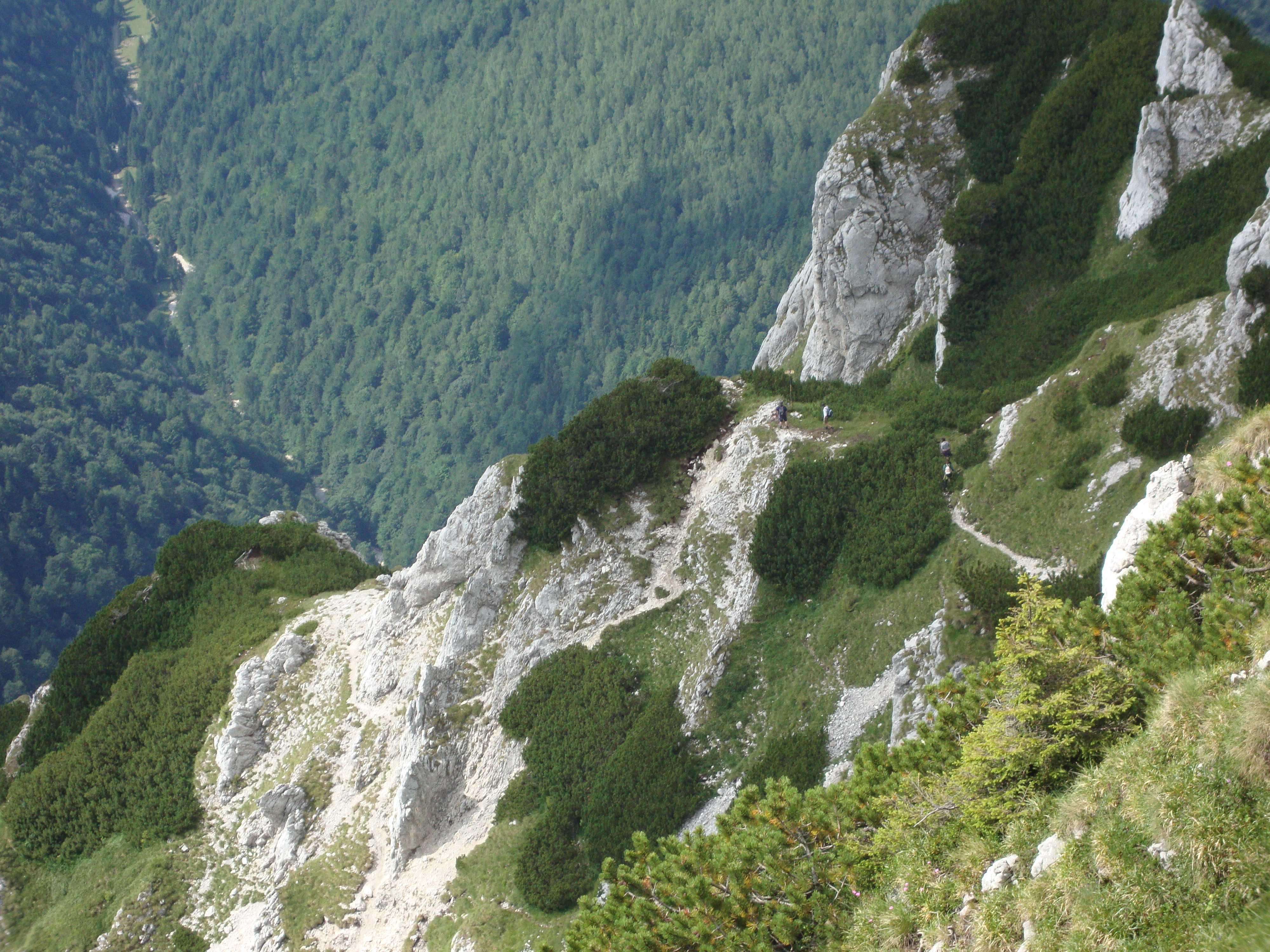 Piatra Craiului, walking down the "Lanturi"